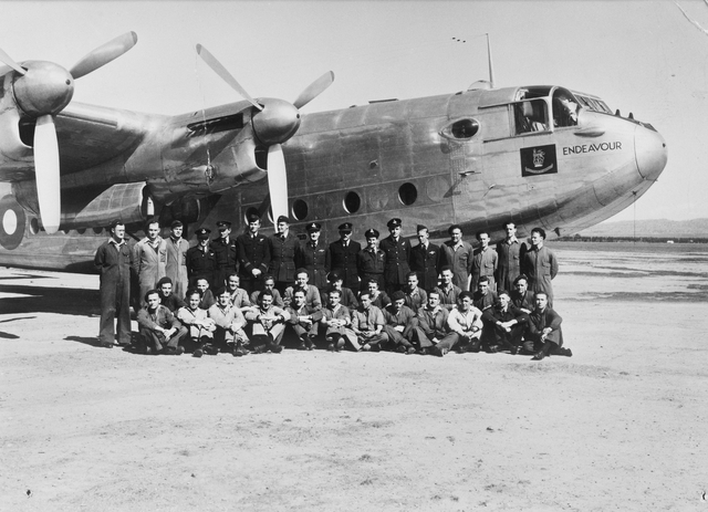 AWM Caption: CANBERRA, ACT. 1945-06. MEMBERS OF THE GOVERNOR GENERAL'S FLIGHT (RAAF) IN FRONT OF THE VICE REGAL AVRO YORK AIRCRAFT NAMED "ENDEAVOUR". LEFT TO RIGHT: BACK ROW (STANDING): ALLAN WATKINS (INSTRUMENT REPAIRER), GEOFF BAGSHAW (STORES CLERK), SCOTTY ROBERTSON (FITTER IIA), LES WELLDON (WIRELESS OPERATOR AIR GUNNER), TED MEREDITH (PILOT), ROY FRENCH (NAVIGATOR), GEOFF CLACK (ADJUTANT), DON DONALDSON (PILOT, COMMANDING OFFICER), DERBY MUNRO (ENGINEER OFFICER), DON DELANEY (FLIGHT ENGINEER), GORDON EARL (NAVIGATOR), JACK CRITCHLEY (PILOT), LEN SNEESBY (FITTER IIE), BOB SUTTON (INSTRUMENT MAKER), "BLACKIE" (CLERK GENERAL), CLIVE CAMPBELL (LIBRARIAN); SECOND ROW (KNEELING): LES MCMAHON (AIRCRAFT HAND), ROY KNIGHT (FABRIC WORKER), BARNEY PORTER (AIRCRAFT HAND), BRIAN QUIST (AIRCRAFT HAND), BILL HARKIN (EQUIPMENT ASSISTANT), HARRY BROWN (DRIVER MOTOR TRANSPORT), ARTHUR GEE (AIRCRAFT HAND), CHARLIE PINAL (INSTRUMENT REPAIRER), JACK HANSLOW (FITTER IIA), KEN MULLINS (FITTER IIE), JOE DODDS (CARPENTER RIGGER); FRONT ROW: WAL UPTON (FITTER IIA), JACK MCKNIGHT (FITTER IIE), CHARLIE BATESON (AIRCRAFT HAND), STEWART HANCOCK (EQUIPMENT ASSISTANT), GORDON YORKE (WIRELESS OPERATOR MECHANIC), SCOTTY YULE (?YUILL) (WIRELESS MAINTENANCE MECHANIC), JIM CUNNINGHAM (ELECTRICAL FITTER), KEN CARROLL (FITTER IIE), TIM FLETCHER (STORES CLERK), VIVIAN SCULLEN (FITTER IIE), LEO HUNTINGTON (FITTER IIA), KEITH PRINCE (ELECTRICIAN). (DONOR G. KIRK)